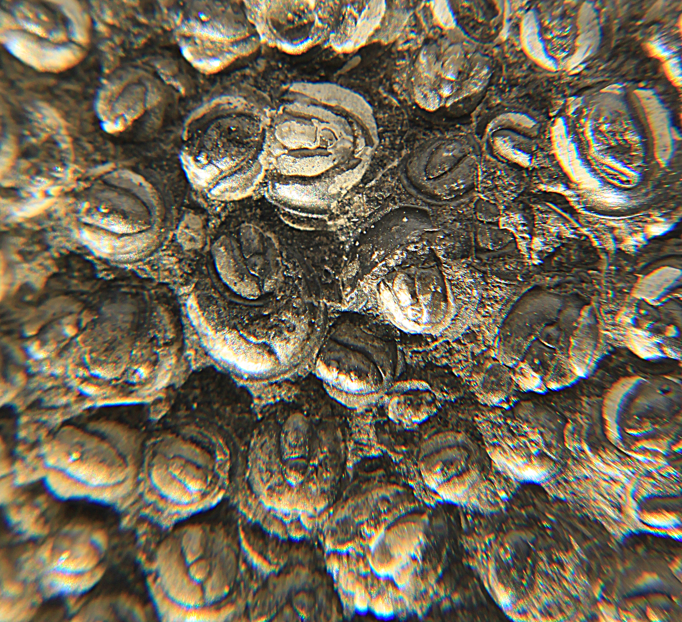 The moulting remains of the trilobite Agnostus pisiformis, the loose cephalons and pygidia are upto 4 mm along the axis, Order Agnostida, Family Agnostidae, found at Kakeled on Kinnekulle, Västergötland, Sweden, early Upper Cambrian (Paibian, Agnostus pisiformis-zone)